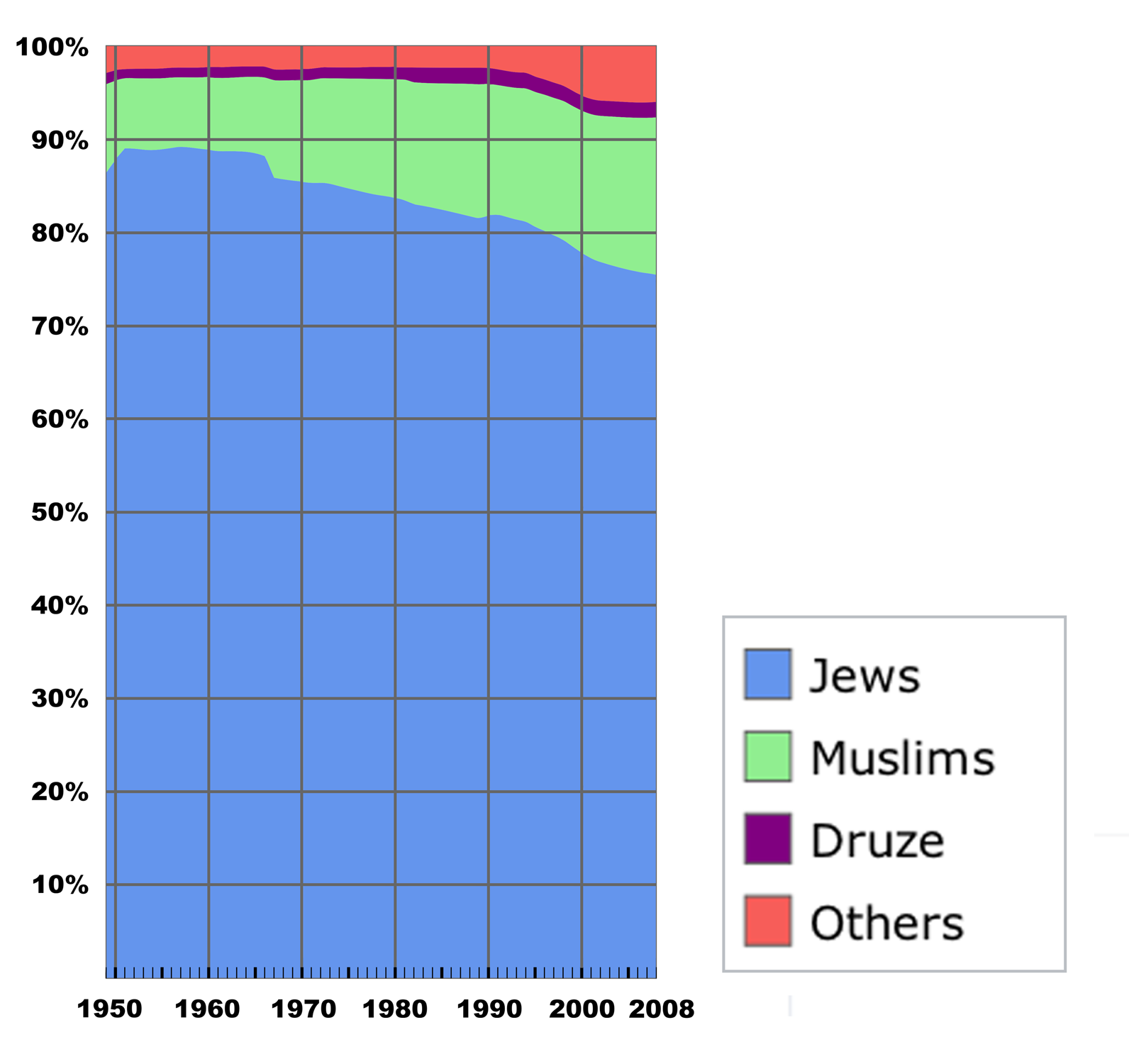 Population chart of Israel, by religion, from 1949 to 2008